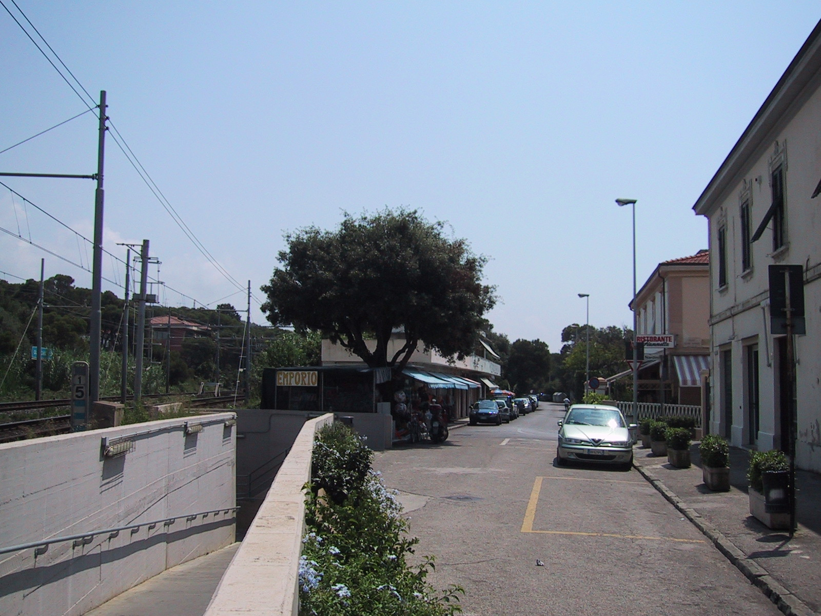 Railway crossing from village to the station. Quercianella Sonnino, Livorno, Tuscany, Italy